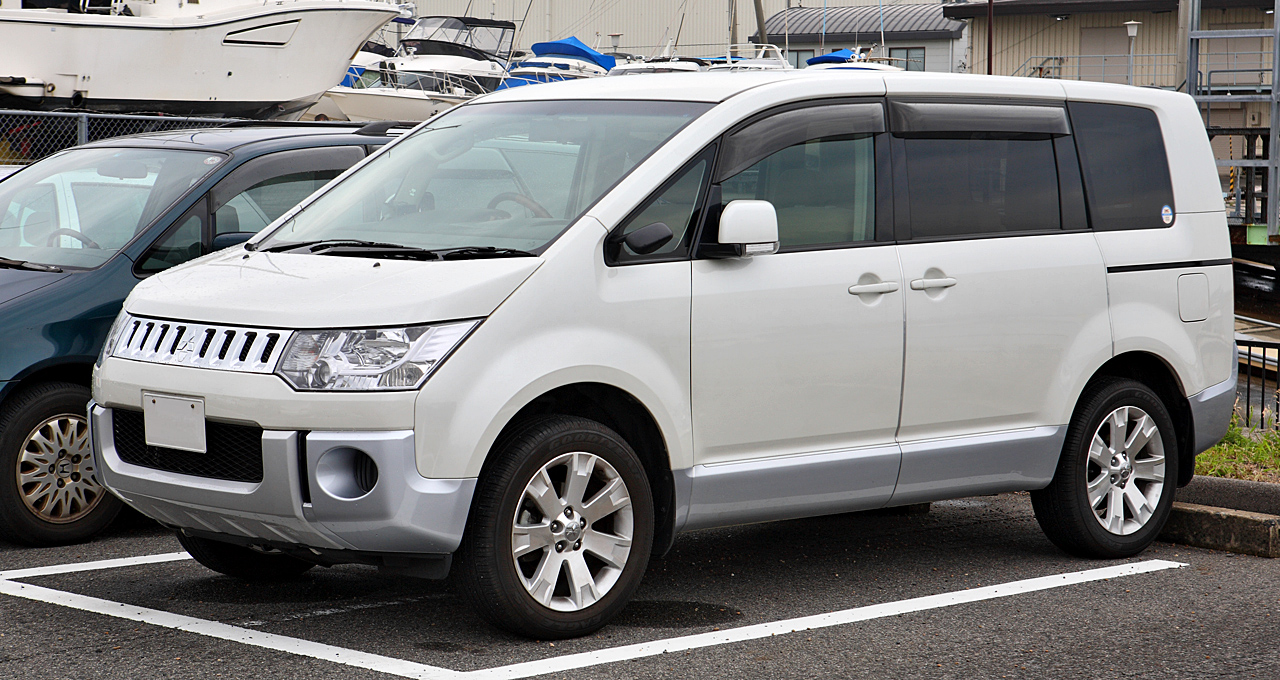 Mitsubishi Delica D:5